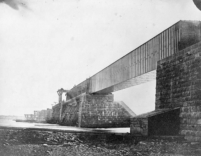 The Victoria Bridge under construction, c. 1858–1860